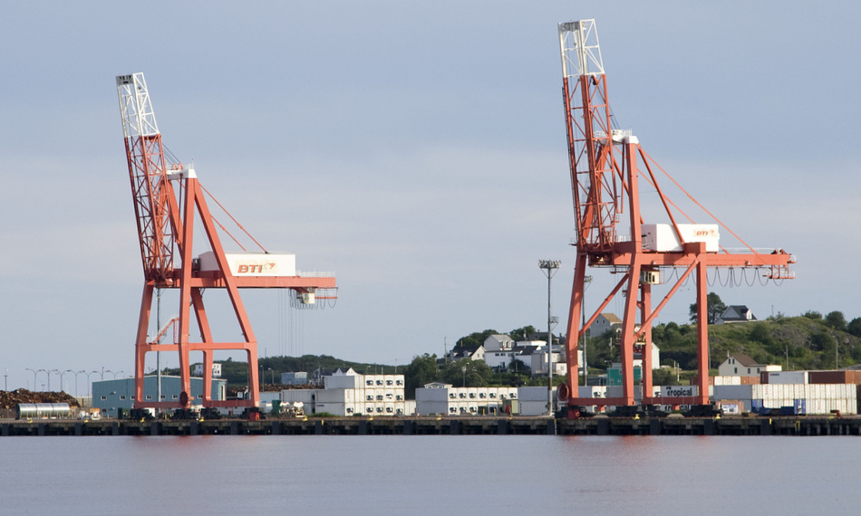 The port of Saint John.